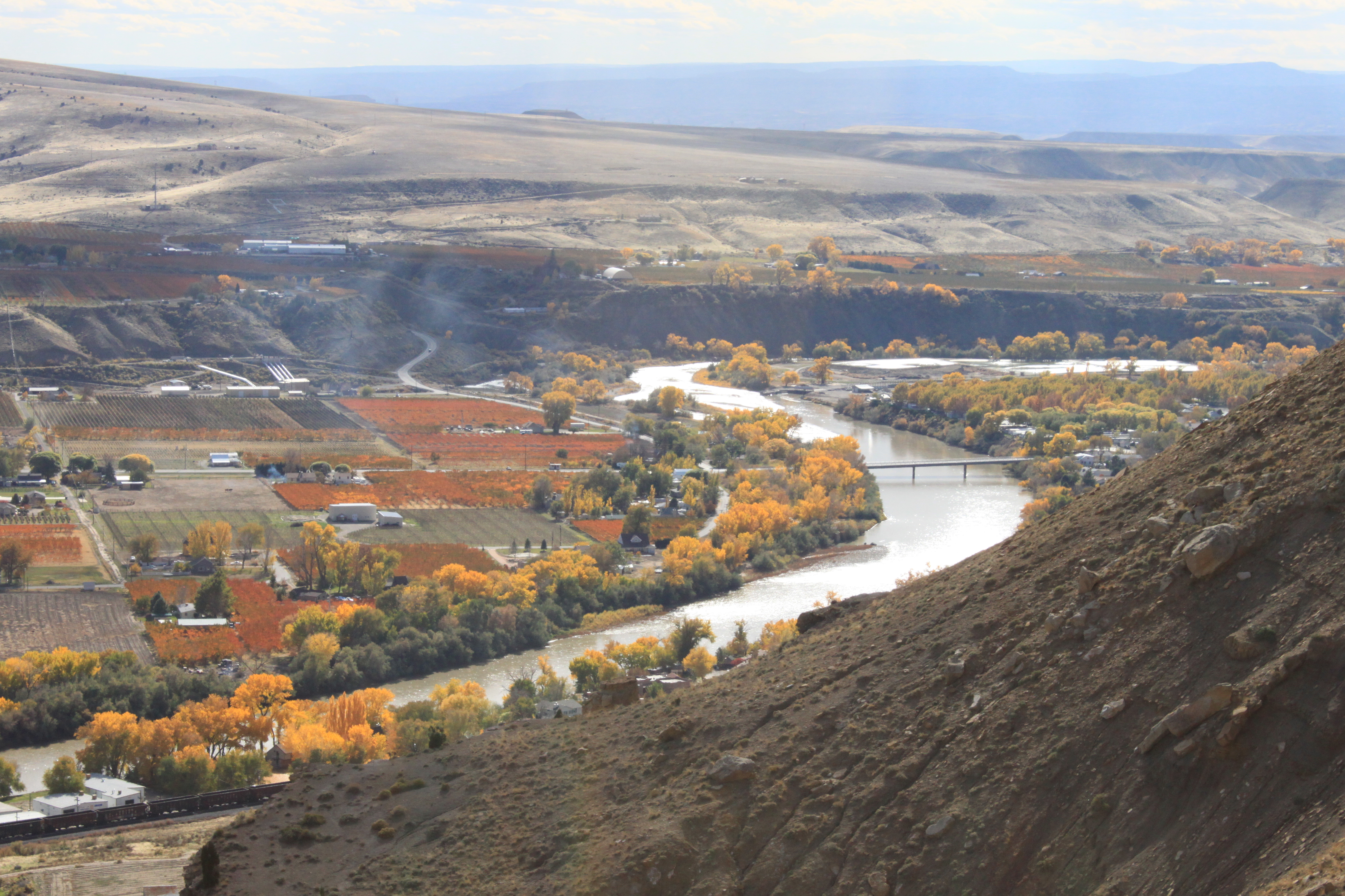 A view of the Colorado wine region of Grand Valley AVA